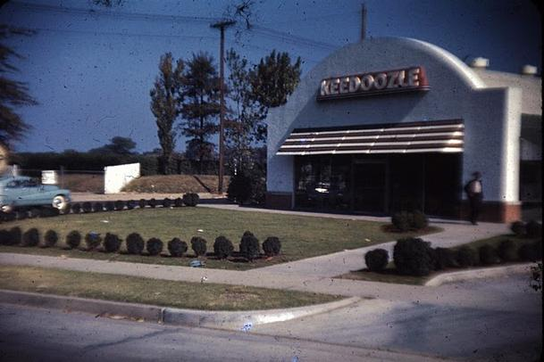 Keedoozle automated grocery store in Memphis, Tenessee. Photo taken by Paul Robert Alvey Family in 1948. The rounded shape of the building was due to the fact that he built it out of an Army surplus Quonset Hut (cost about $1000) with a fancy front on it.